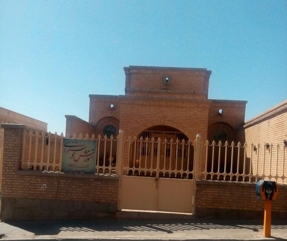 hakim nezari s tomb Hakīm Sa'd-al-Dīn ibn Shams-al-Dīn Nizārī Bīrjandī Quhistānī or simply Nizari Quhistani (died 1320 CE), was a 13th-century Ismaili author and poet, who lived in the time of the Imam Shams al-Din Muhammad. Nizari was born into a family of landed gentry approximately a decade after the capitulation of the Alamut state and hailed from the town of Birjand. Nizari is the only Ismaili poet of this period whose works are extant.